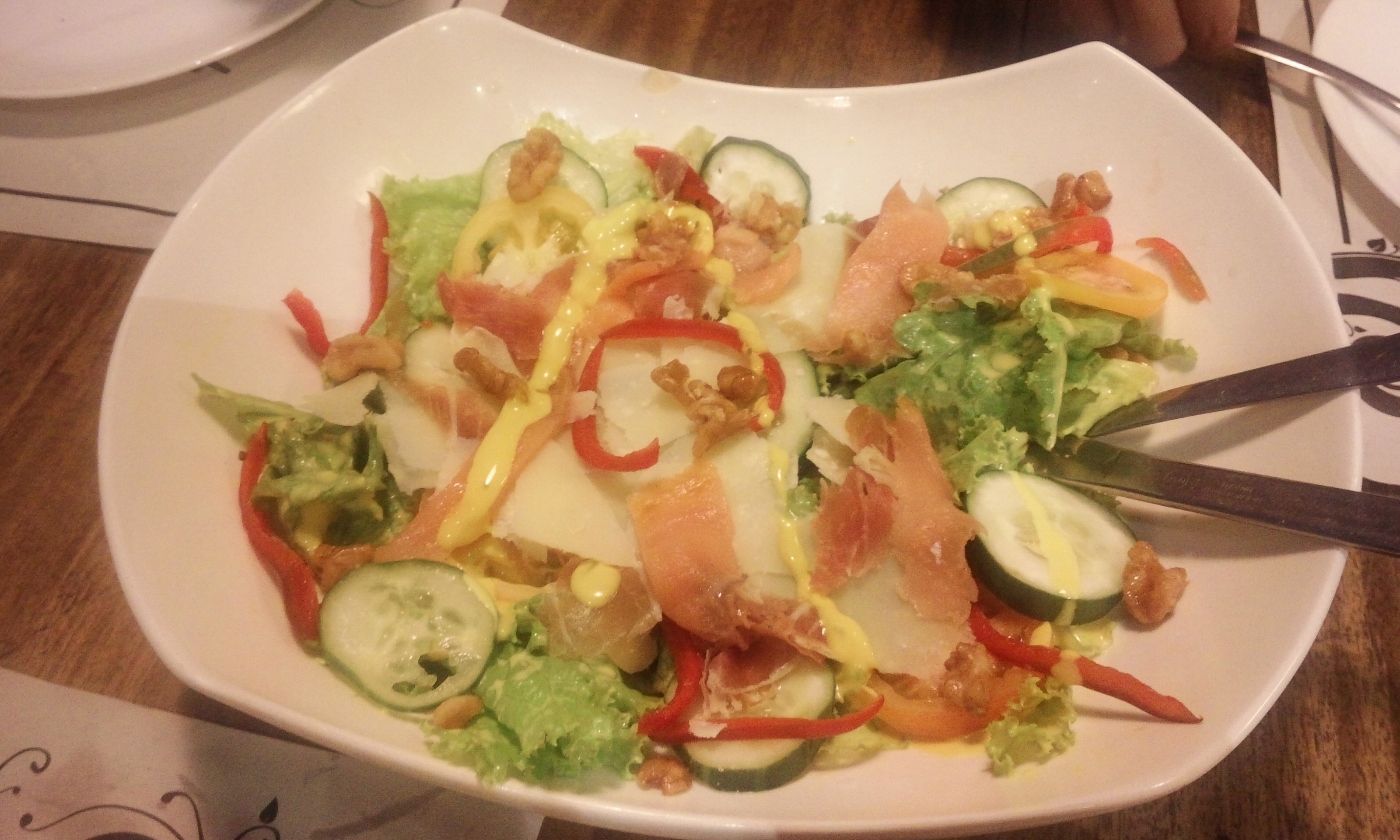 I ate this salmon salad in the Bacolod City, the Philippines.